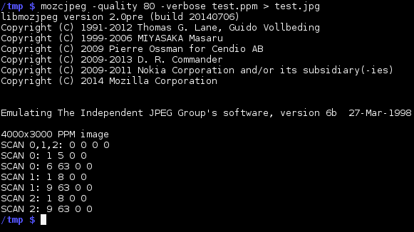 Screenshot of the command line utility cjpeg from the libjpeg package in a preliminary release of version 2 from the mozjpeg project. Shown is verbose console output from the compression of a portable pixmap (PPM) file.